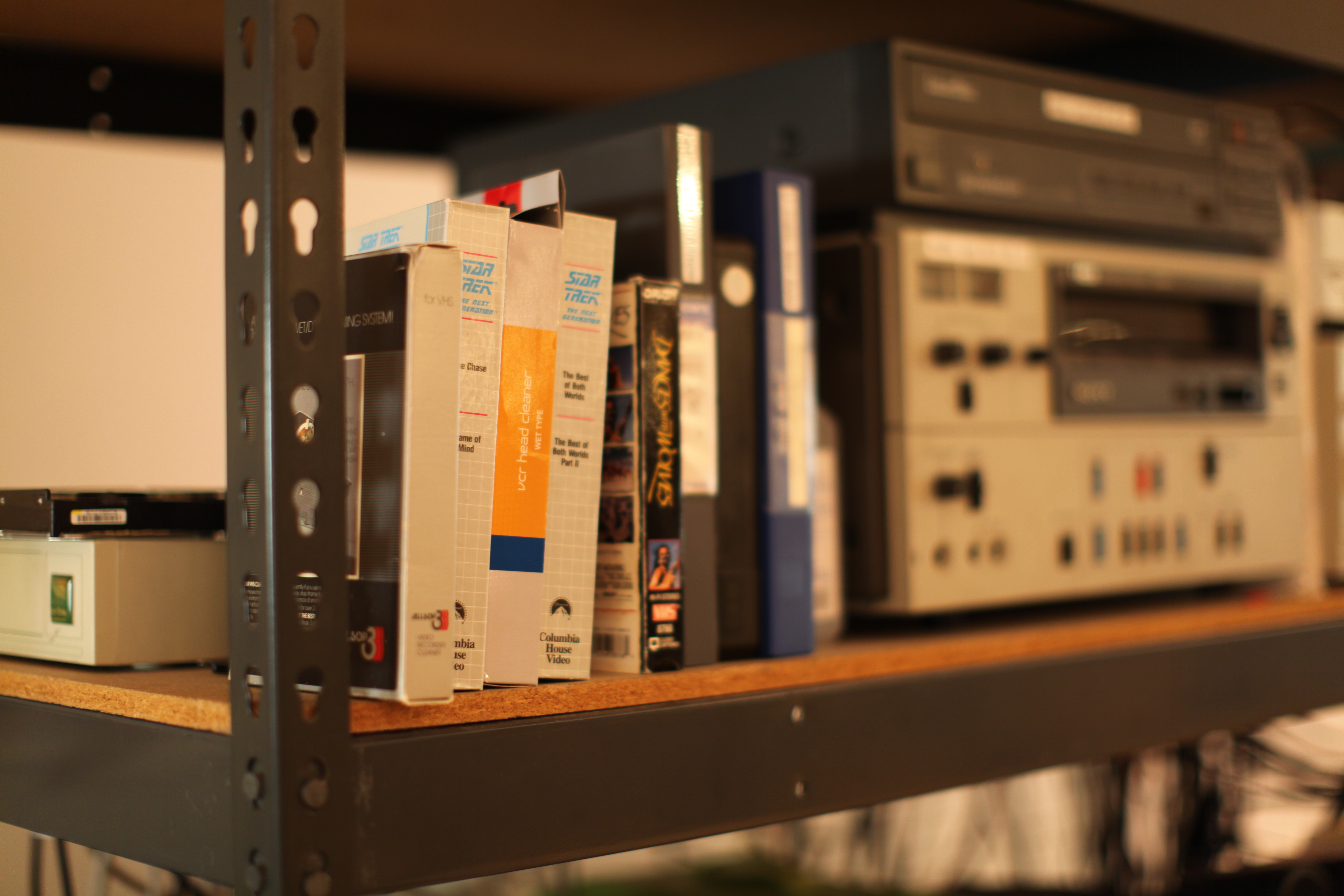 IMG_5103 Videocassettes and VCRs at Internet Archive